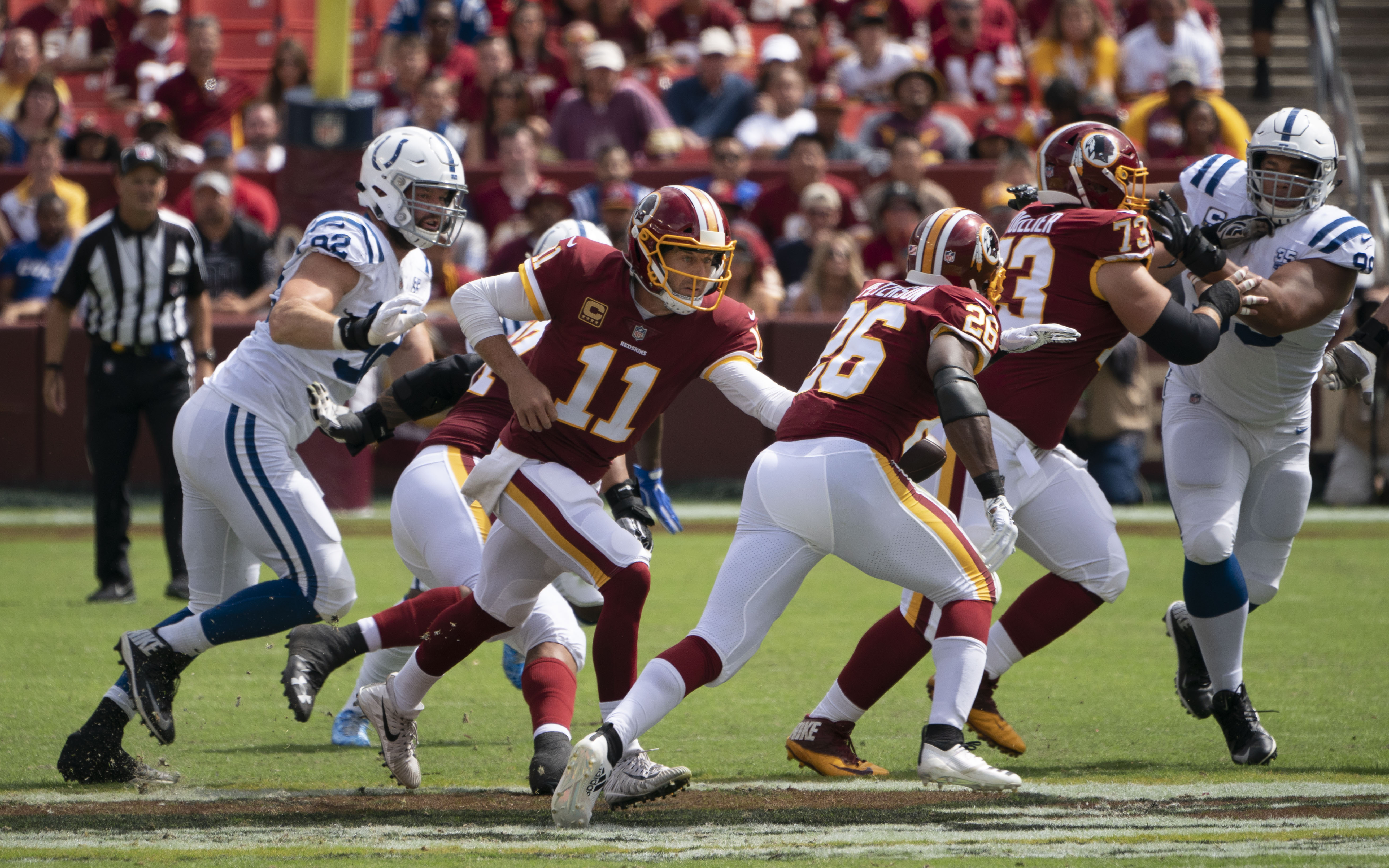 Colts at Redskins 09/16/18